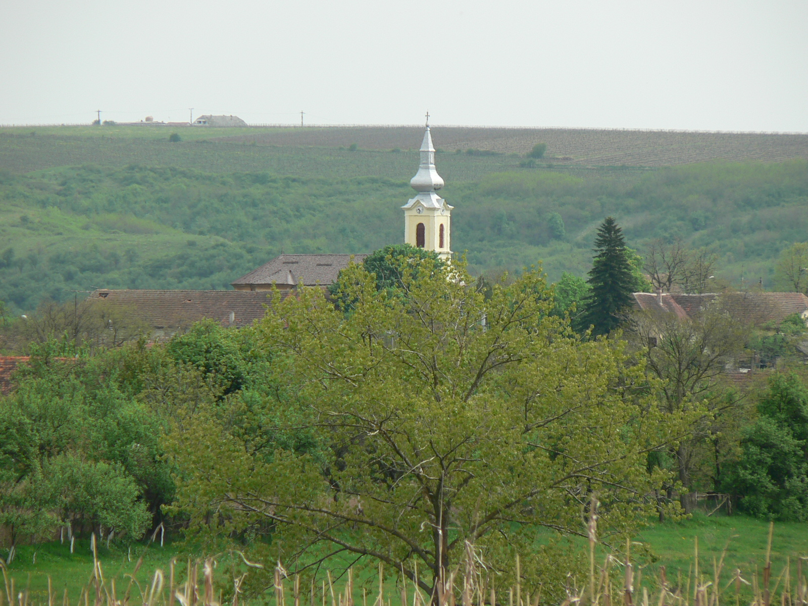 view of the church in Herneacova